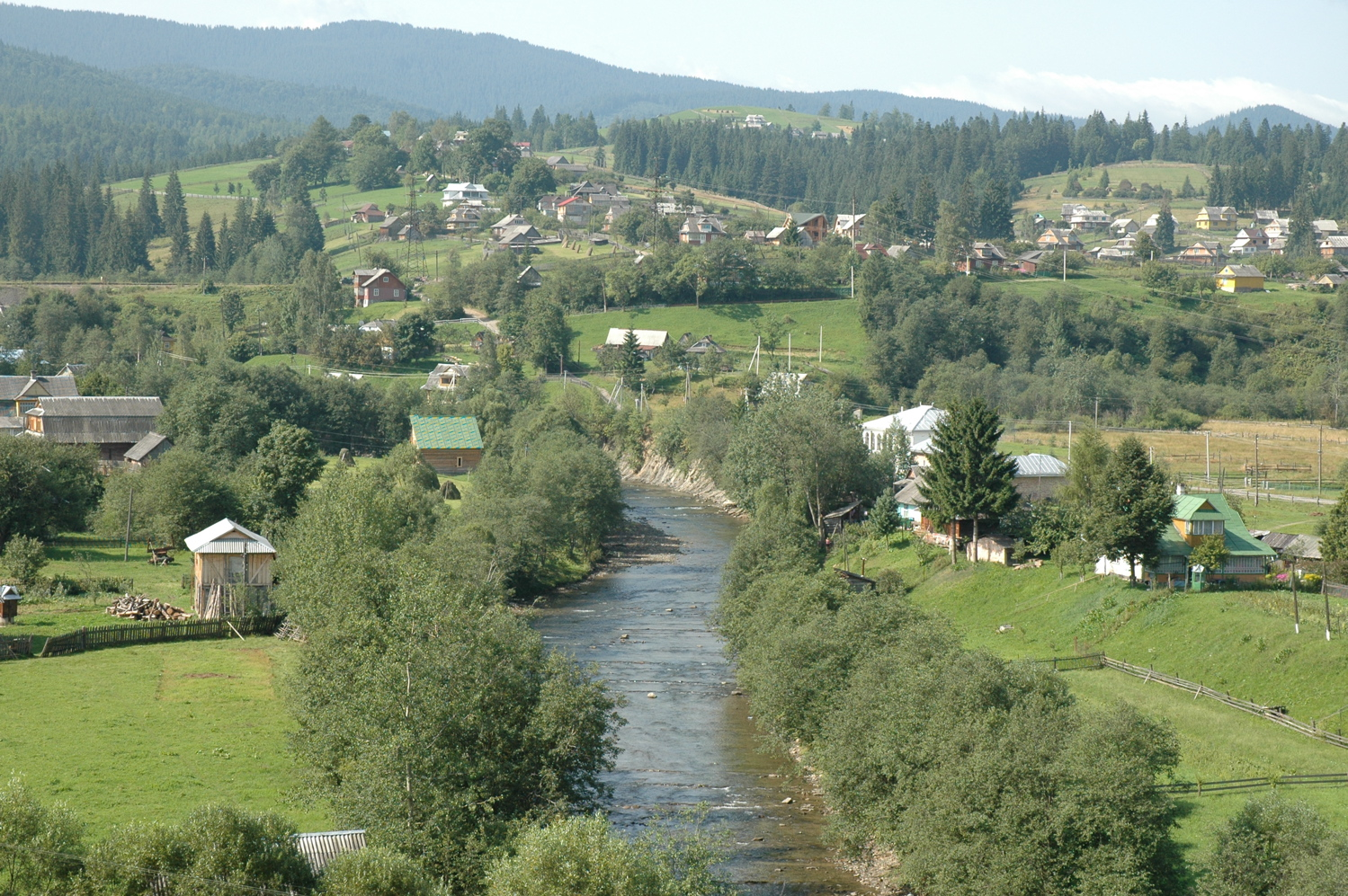 Panoramic view of Vorokhta with the Prut river (Ivano-Frankivsk oblast, Ukraine)